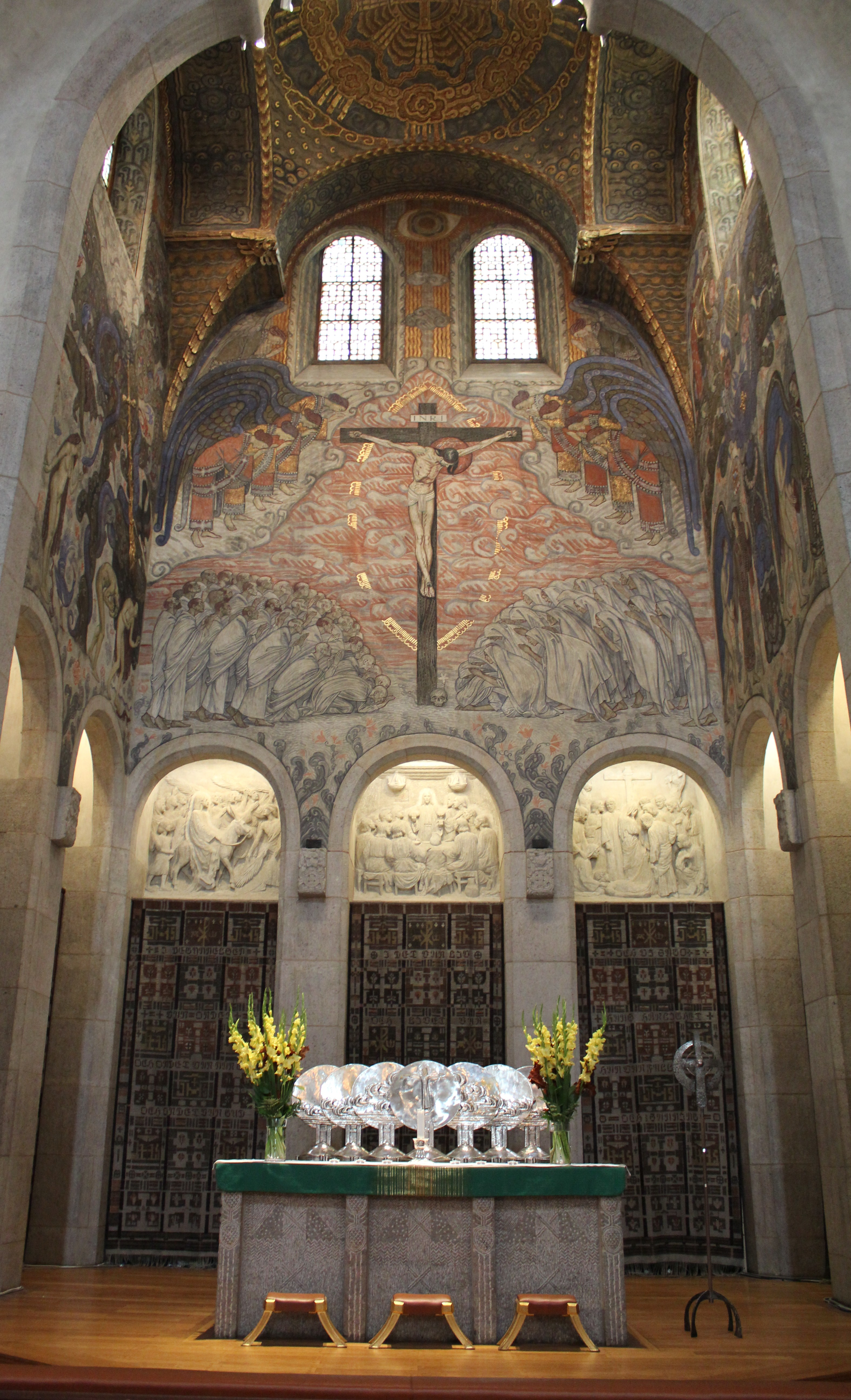 Engelbrekt Church in Stockholm, Sweden. Altar.